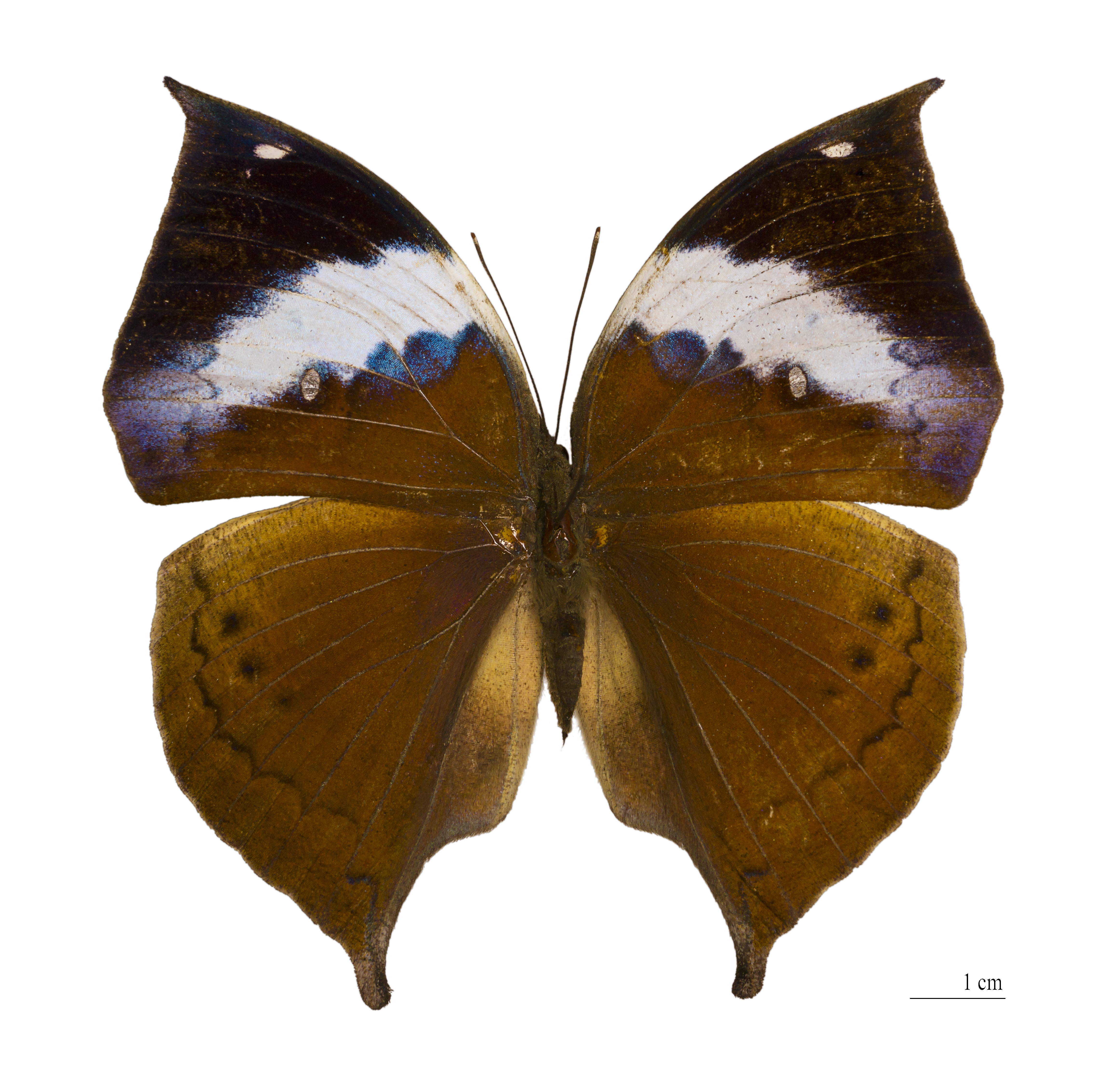 Female specimen - Dorsal side Locality: Barat, Jaca, Indonesia